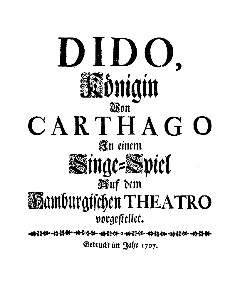 Christoph Graupner - Dido, Königin von Carthago - titlepage of the libretto from 1707